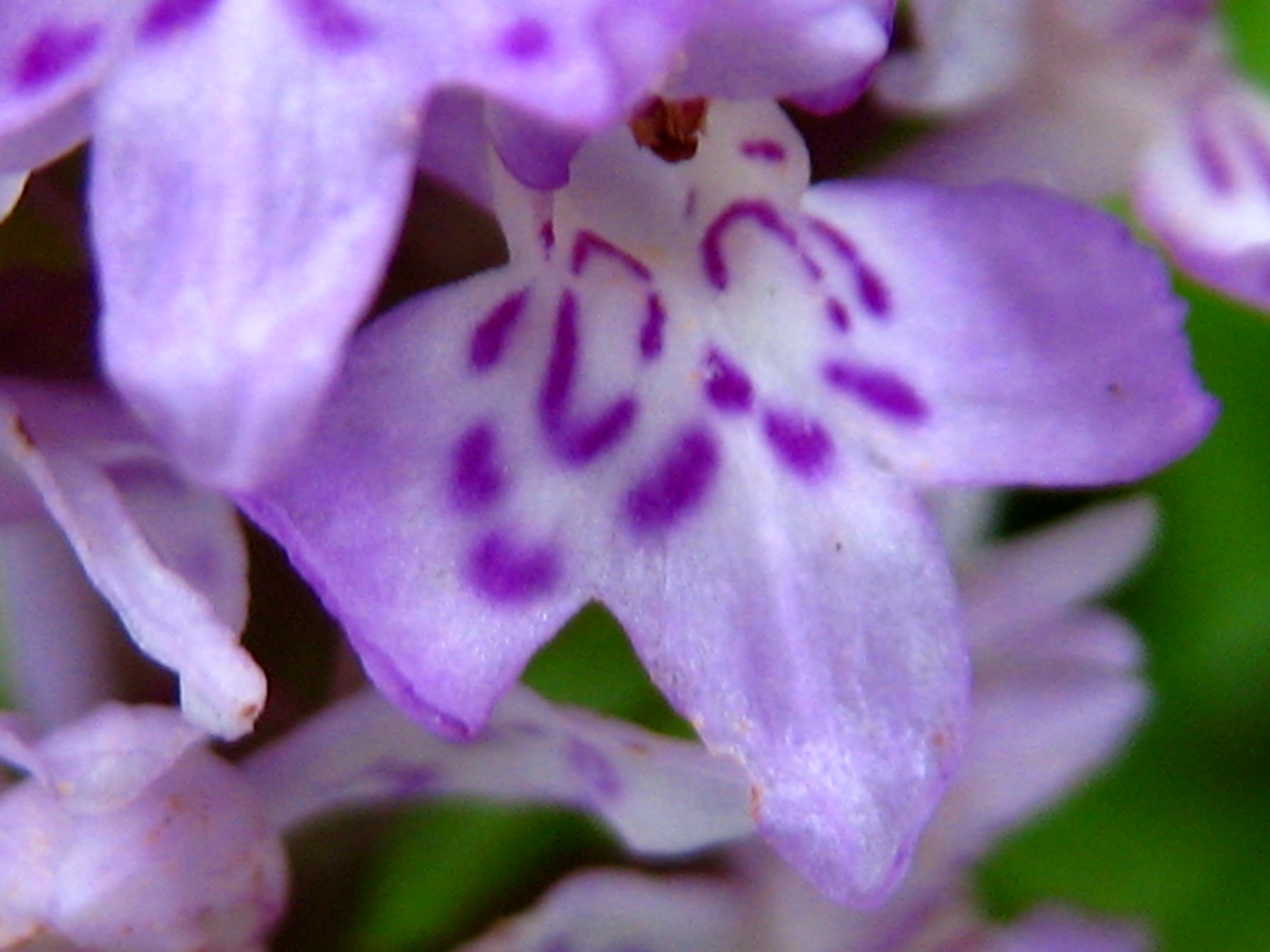 Close up of a Dactylorhiza fuchsii